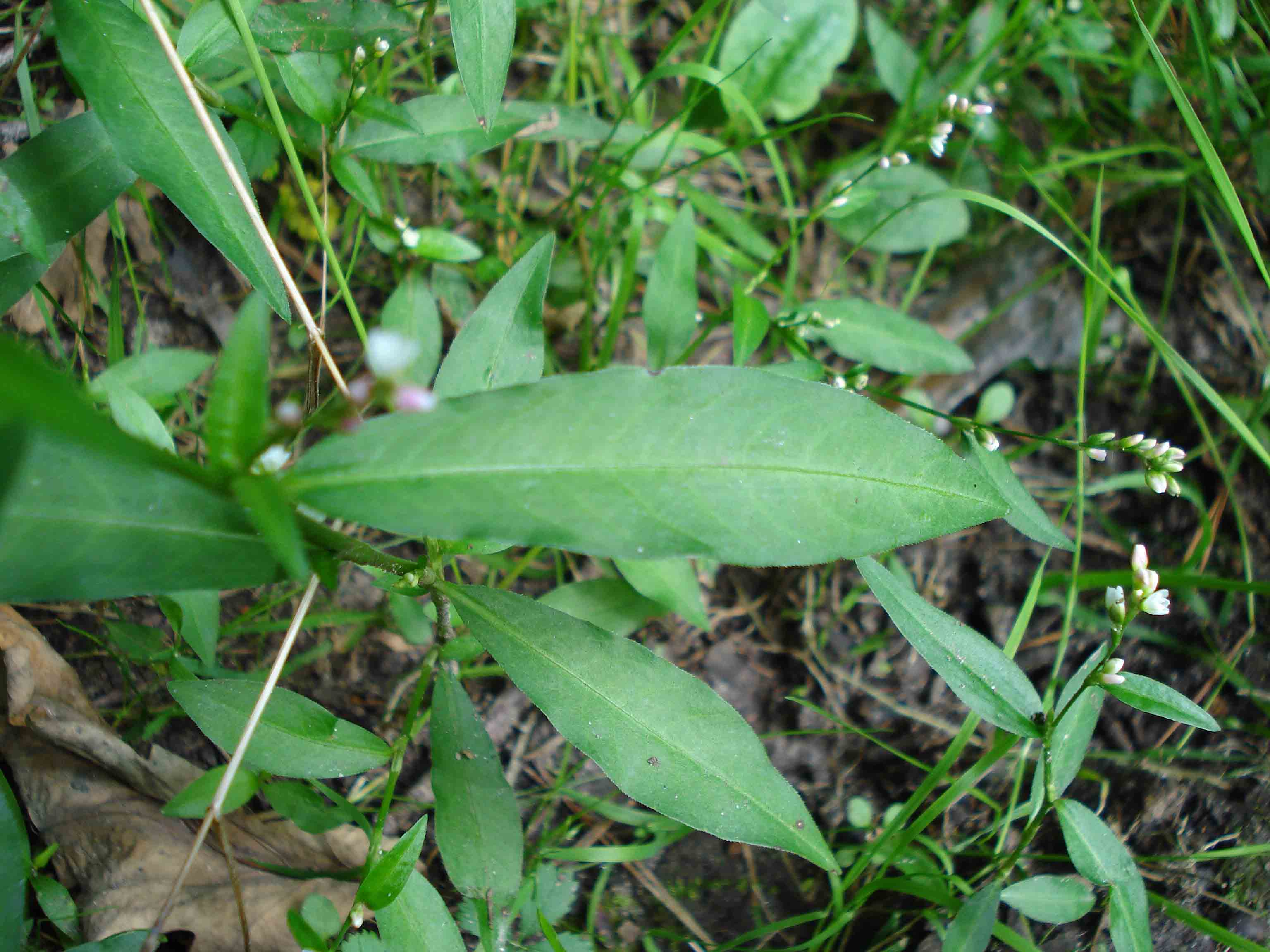 Persicaria mitis (syn. P. dubia). Unterfranken, Germany.